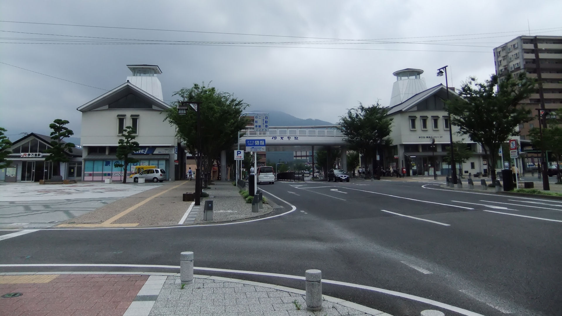 Imari Station of JR Kyushu (on the left) and Matsuura Railway (on the right)